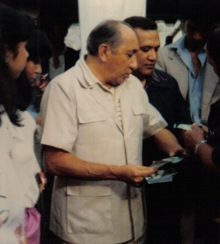 Simón Díaz in the 1980s